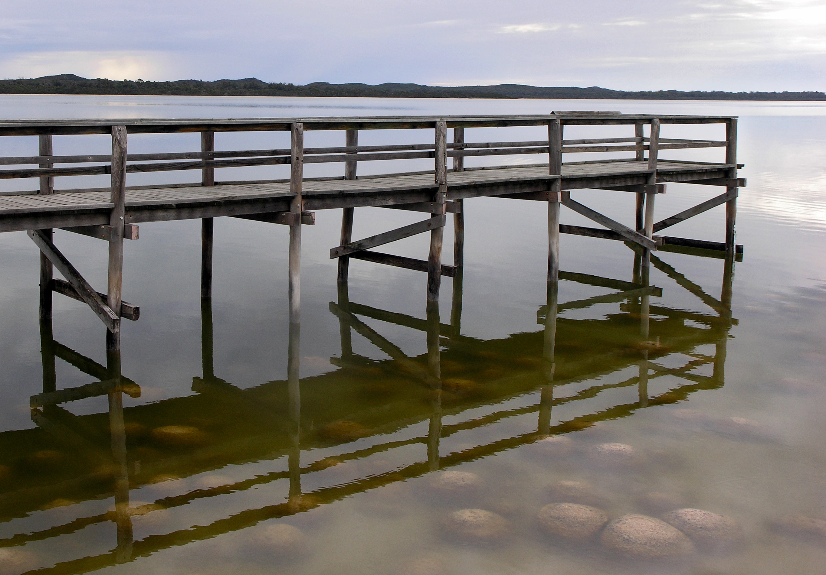 Lake Clifton observation walkway, Western Australia